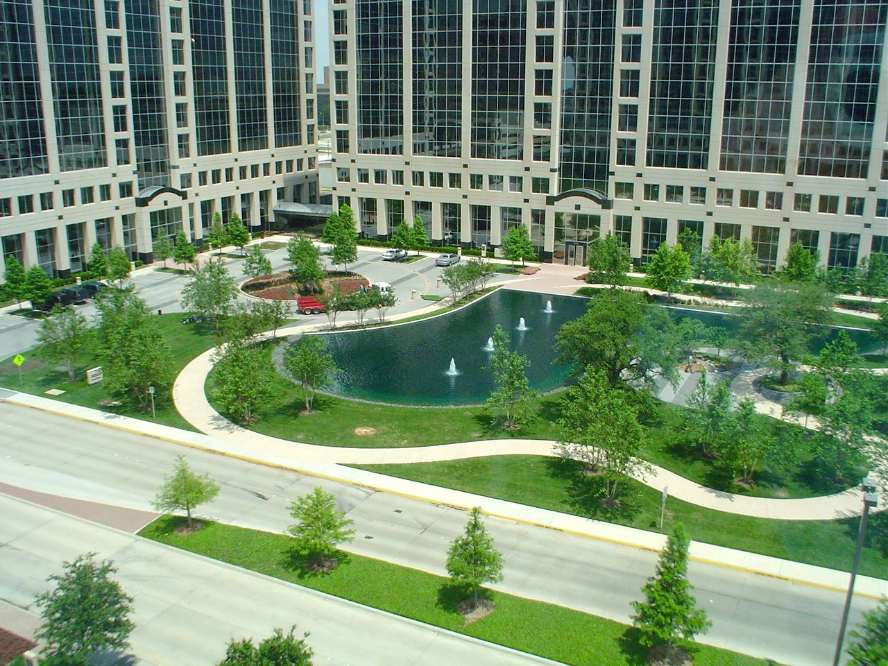 JPMorgan Chase, JPMorgan International Plaza (JIP), Farmers Branch, Texas.